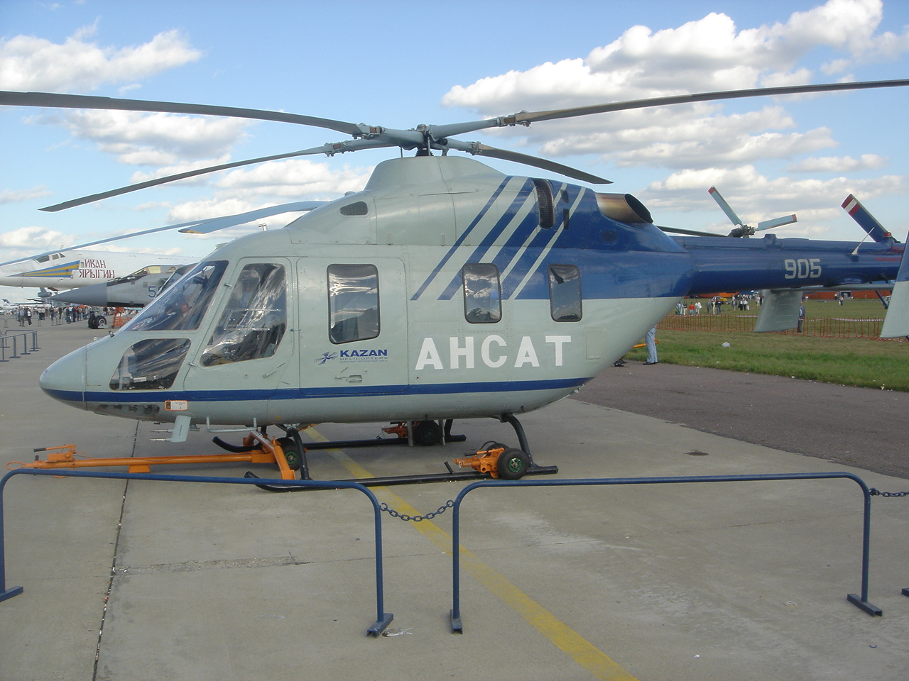 Made it myself during Maks 2005 air show